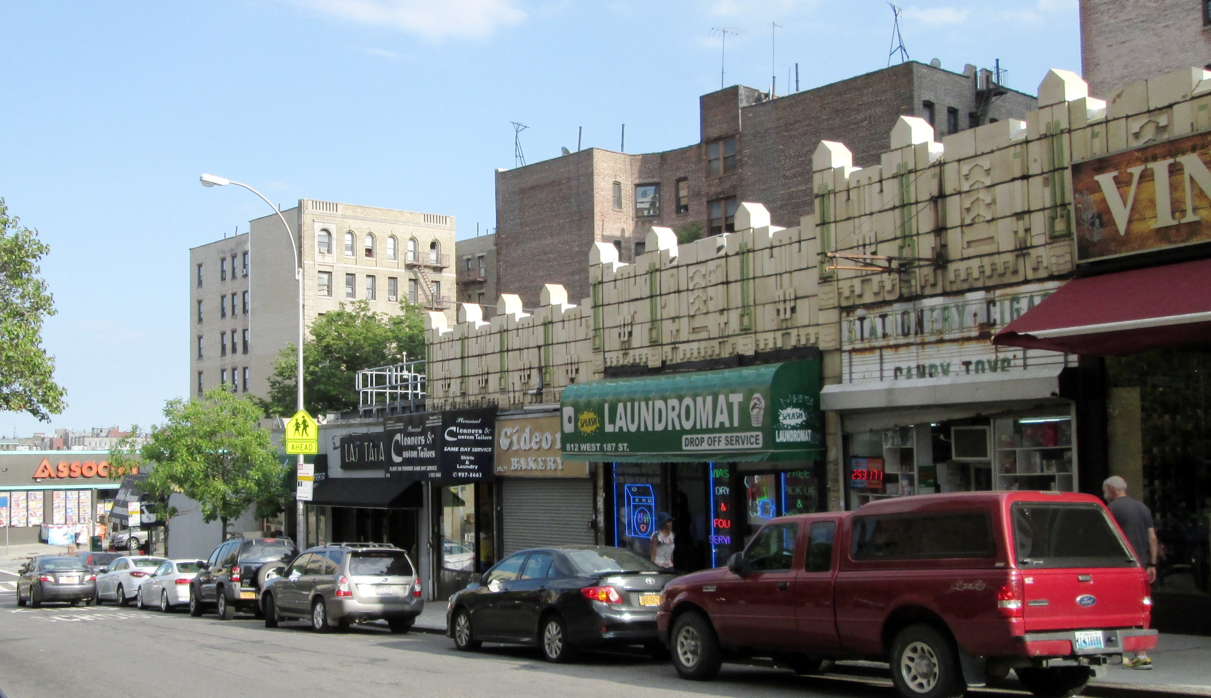 The shopping street in the center of Hudson Heights, West 187th Street between Fort Washington Avenue and Cabrini Boulevard. The one-story Art Deco building on the right (#810-816) dates from 1929 and was designed by George Meisner. Source: "Northern Manhattan (NoMa) Art Deco Project")